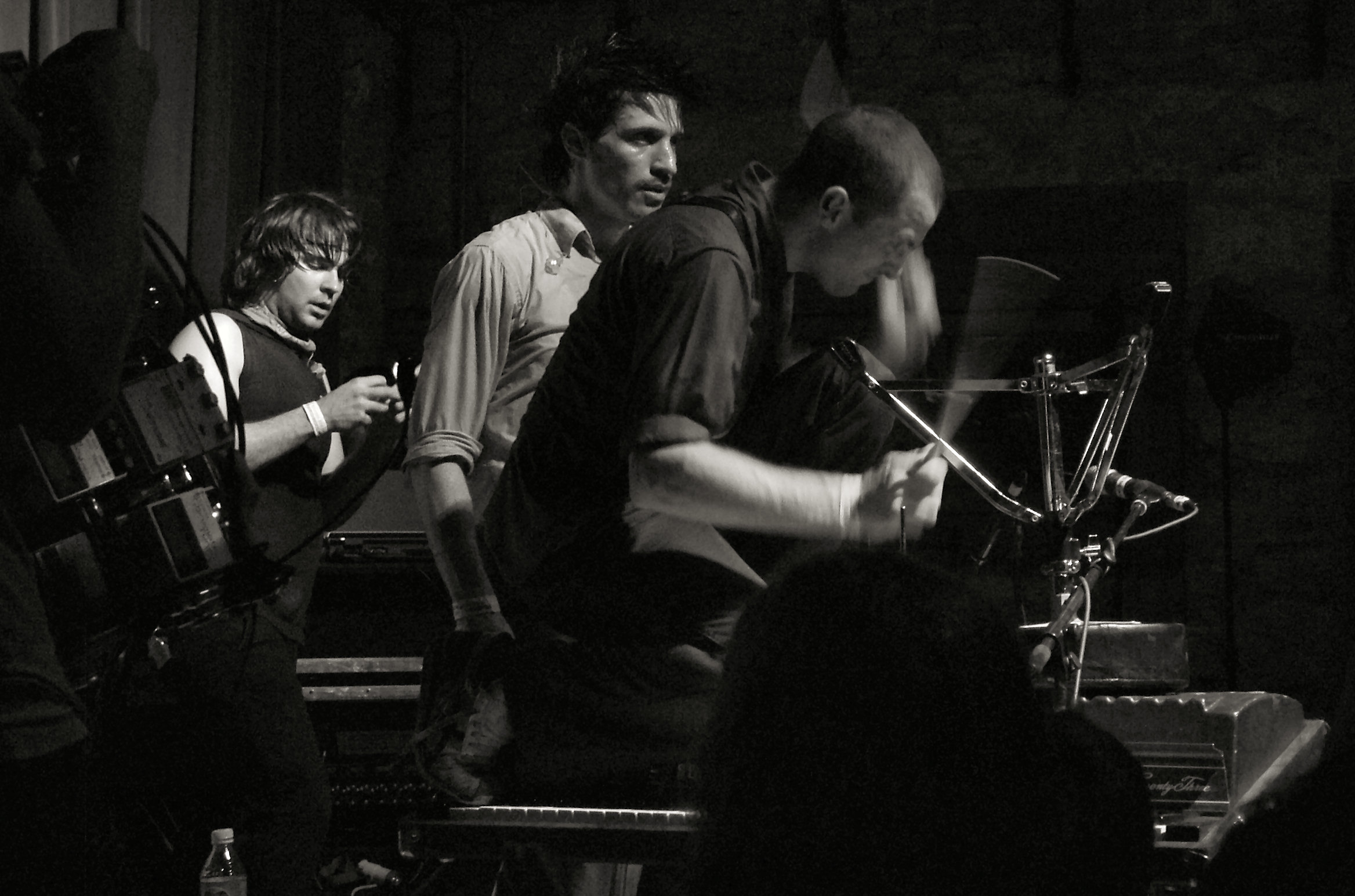 Mute Math playing a concert at Stubb's BBQ in Austin, Texas